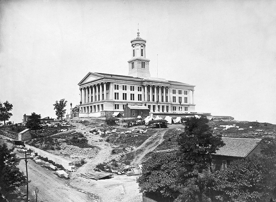 Accession Number: 1979:0022:0003 Maker: George N. Barnard (1819-1902) Title: Capitol. Nashville, Tennessee Date: ca. 1865 Medium: albumen print Dimensions: 27.5 x 37.6 cm. George Eastman House Collection · ·